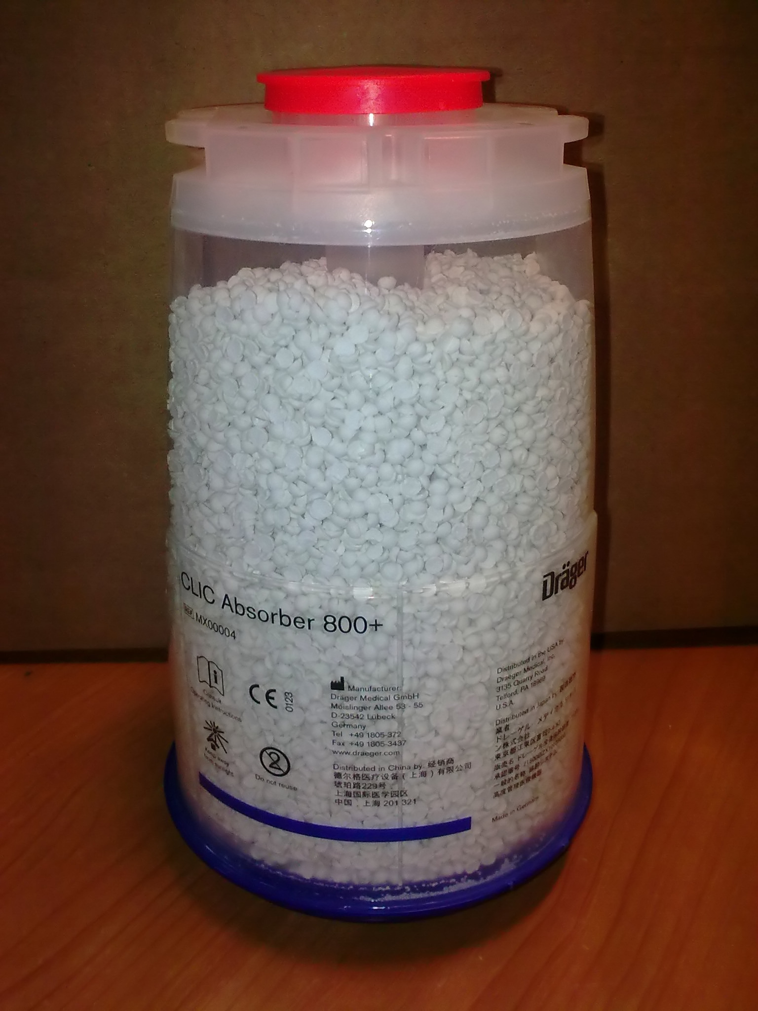 Drägersorb® Soda Lime. High quality CO2 absorption made by Dräger.